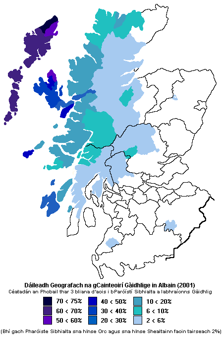 Geographic Distribution of Gaelic Speakers in Scotland (2001)